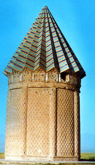 Akhangan tomb (14th-century), Razavi Khorasan province. Iran. Brick tower, with cone roof mosaic lower walls, Timurid architecture of the Timurid Empire era. Photo provided (taken) by Zereshk. Be cool.